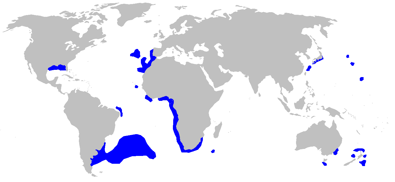 Distribution map for Etmopterus pusillus